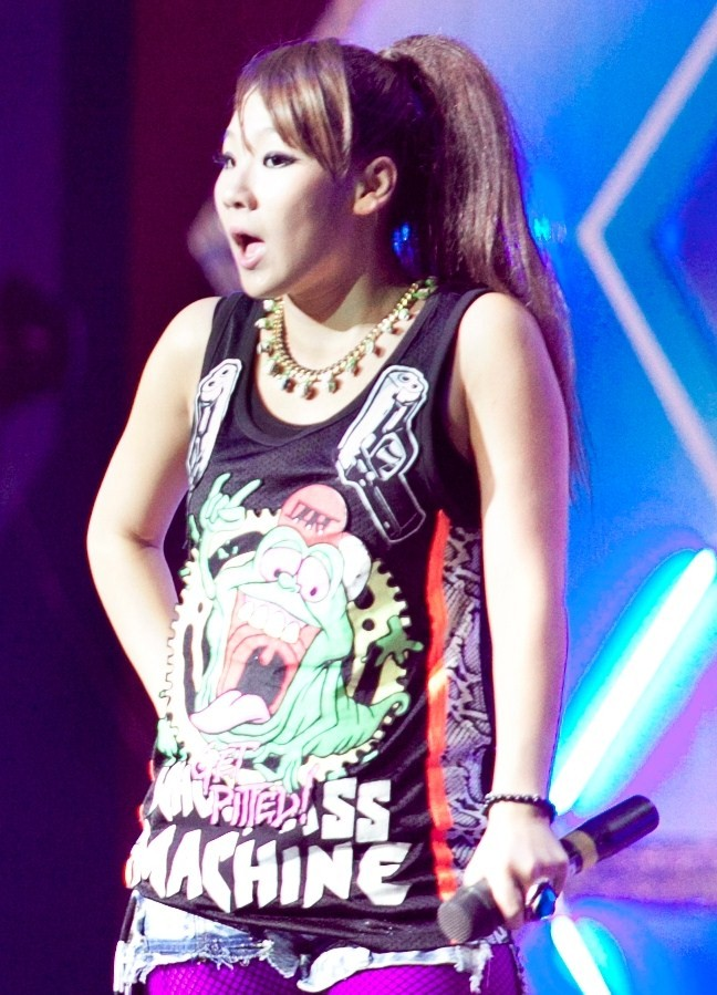 Lee Chae-Rin with 2NE1 at Hanoï.